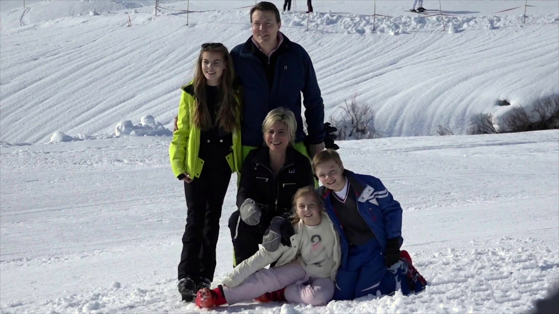 Vorsten magazine exclusivity: The king as director of the photo shoot: King Willem-Alexander, Queen Maxima, Princess Beatrix, Princess Amalia, Princess Alexia, Princess Ariane, Prince Constantijn, Princess Laurentien of The Netherlands, Countess Eloise, Count Claus-Casimir and Countess Leonore pose at the annual winter photocall on February 22, 2016 n the Austrian skiing resort of Lech. The Dutch Royal family is spending their winter vacation in the western Austrian province of Vorarlberg.